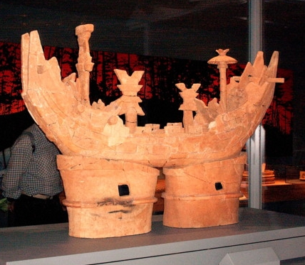 A clay figure of a ship, a funagata-haniwa, buried at the Takaraduka tomb mound (kofun) in Matsusaka-shi, Mie, Japan.